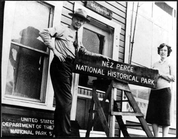 Robert Burns, first superintendent of Nez Perce National Historical Park, and his wife Vivian display the sign for the first park headquarters, located in Watson's Store, 1965